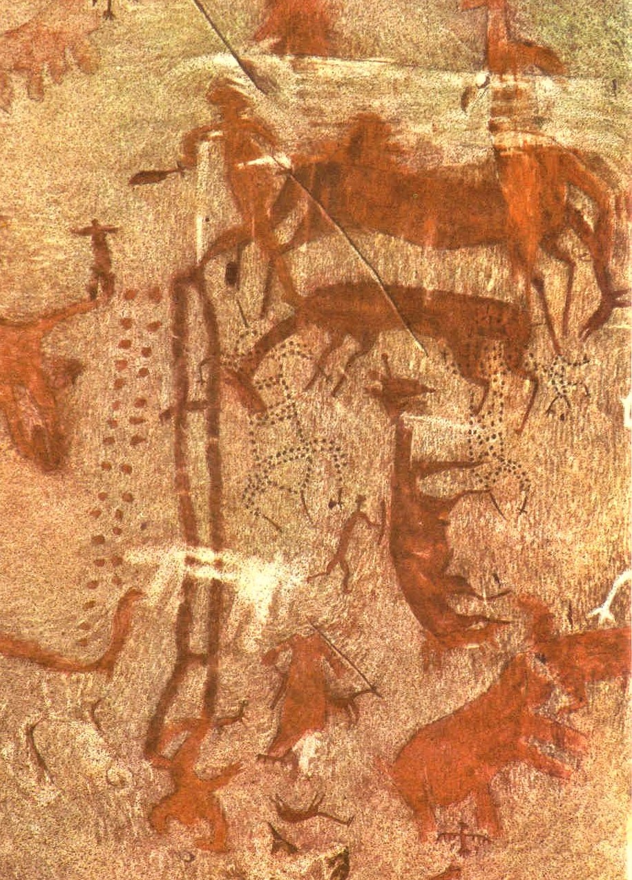 Toquepala Caves Painting